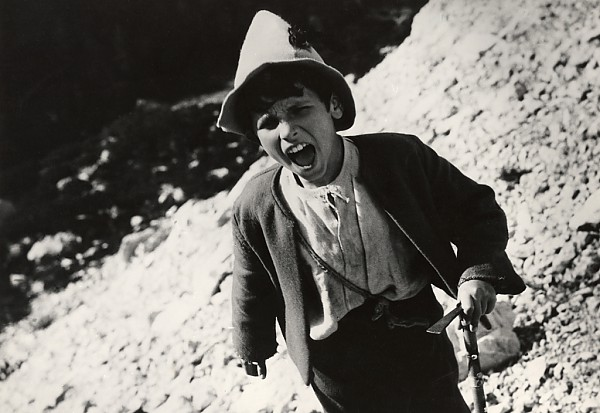 Kekec